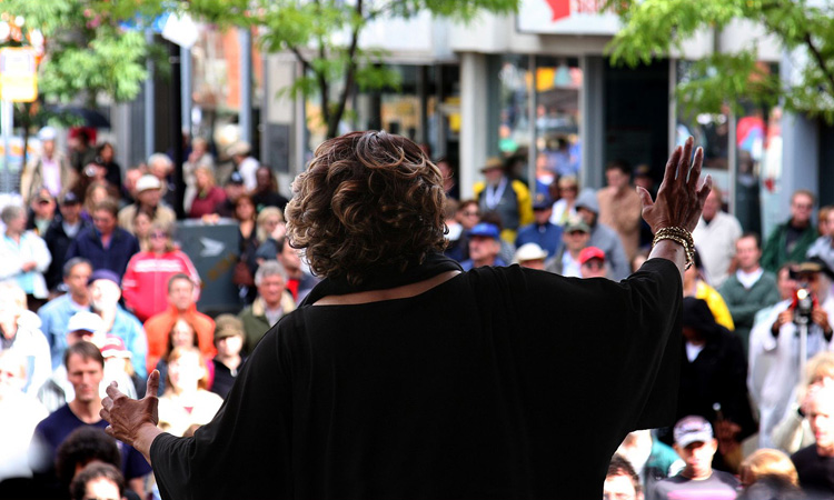 Mavis Staples on the Main Stage at the 2008 Kitchener Blues Festival, raising her voice and hands to God, clearing away the clouds and bringing out the sun.